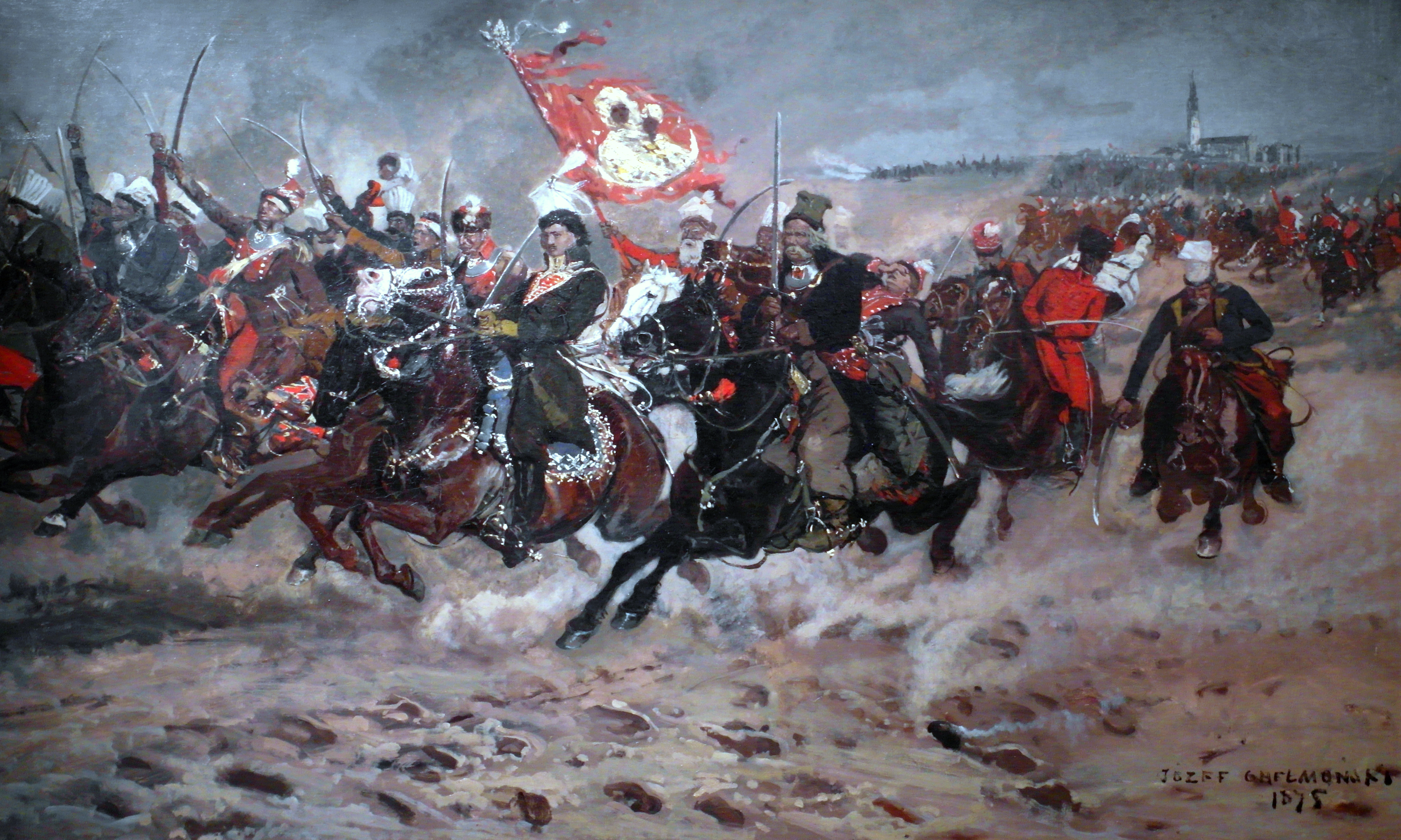 Kazimierz Pułaski at Częstochowa during Bar Confederation